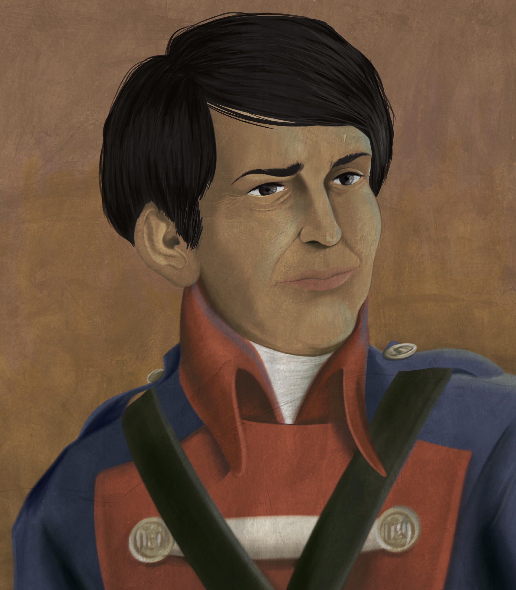 Allegorical portrait of Agustin Agualongo by Iván Benavides.